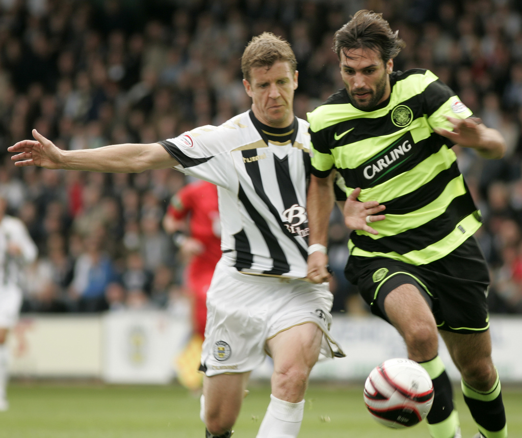 St Mirren 0 vs Celtic 2 Scottish Premier League